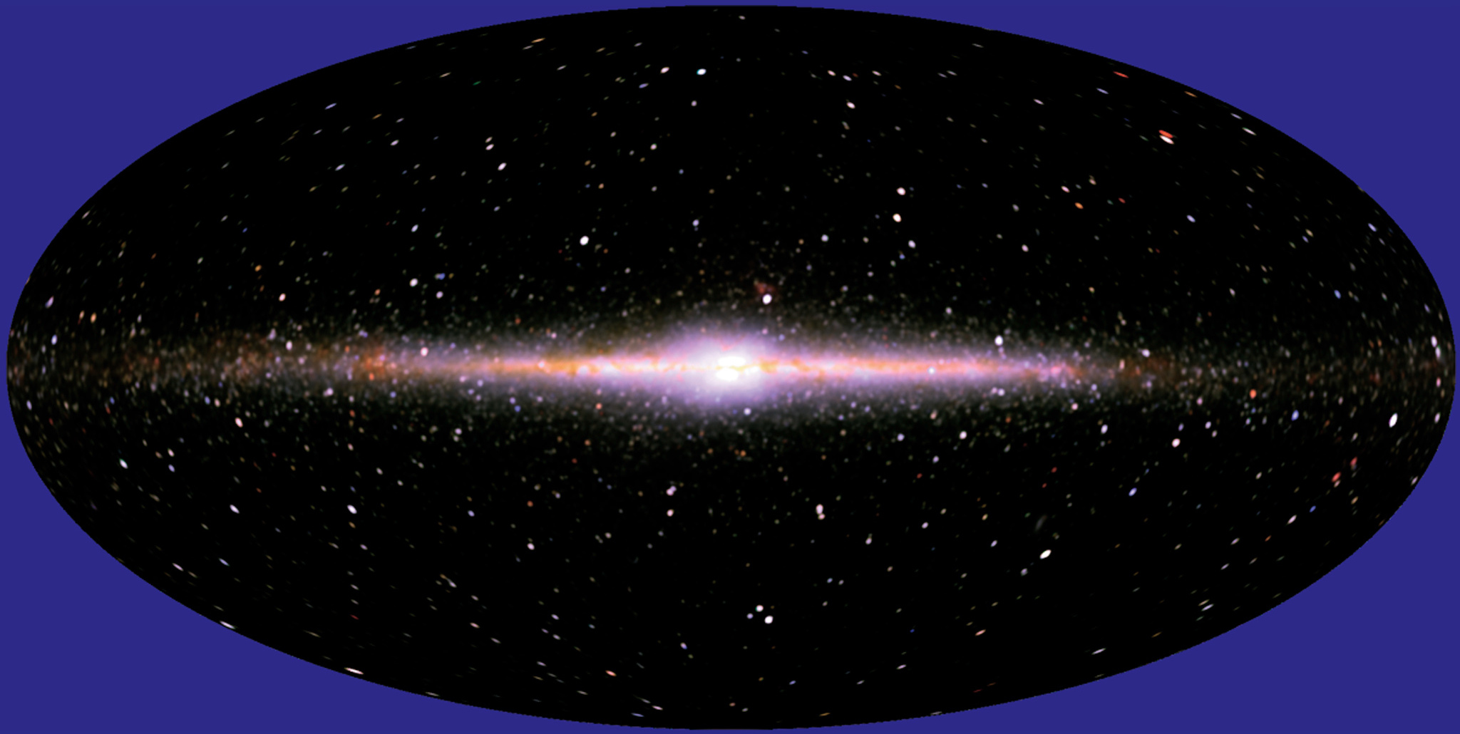 False-color image of the near-infrared sky as seen by the DIRBE. Data at 1.25, 2.2, and 3.5 µm wavelengths are represented respectively as blue, green and red colors. The image is presented in Galactic coordinates, with the plane of the Milky Way Galaxy horizontal across the middle and the Galactic center at the center. The dominant sources of light at these wavelengths are stars within our Galaxy. The image shows both the thin disk and central bulge populations of stars in our spiral galaxy. Our Sun, much closer to us than any other star, lies in the disk (which is why the disk appears edge-on to us) at a distance of about 28,000 light years from the center. The image is redder in directions where there is more dust between the stars absorbing starlight from distant stars. This absorption is so strong at visible wavelengths that the central part of the Milky Way cannot be seen. DIRBE data will facilitate studies of the content, energetics and large scale structure of the Galaxy, as well as the nature and distribution of dust within the Solar System. The data also will be studied for evidence of a faint, uniform infrared background, the residual radiation from the first stars and galaxies formed following the Big Bang.